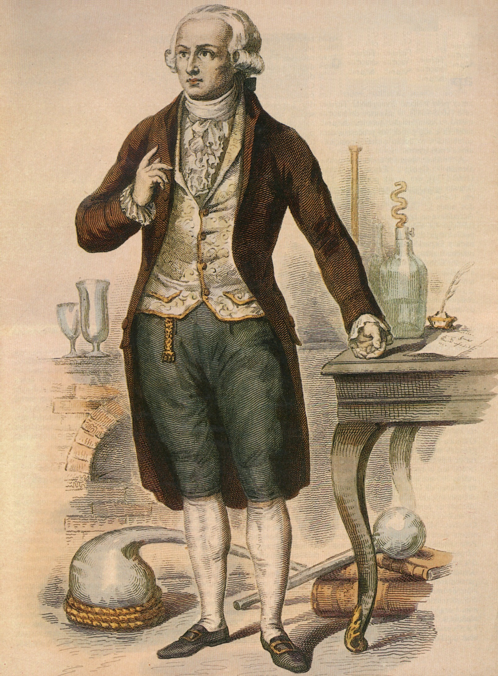 Antoine-Laurent Lavoisier. Line engraving by Louis Jean Desire Delaistre, after a design by Julien Leopold Boilly.